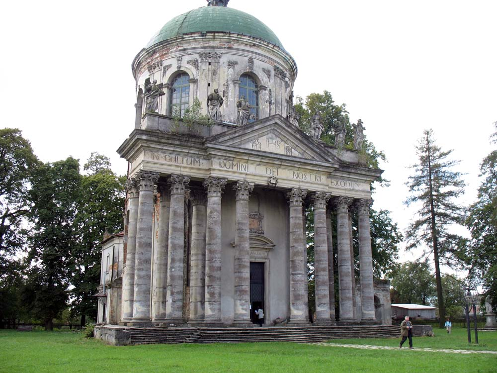 Pidhirtsi (Ukrainian: Підгірці